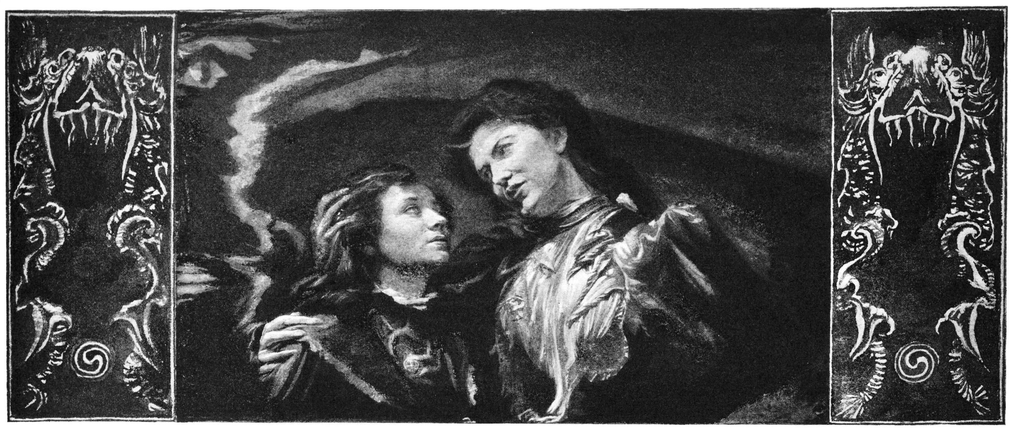 Title illustration for the 12-part serialization of Henry James' The Turn of the Screw in Collier's Weekly (January 27 – April 16, 1898)